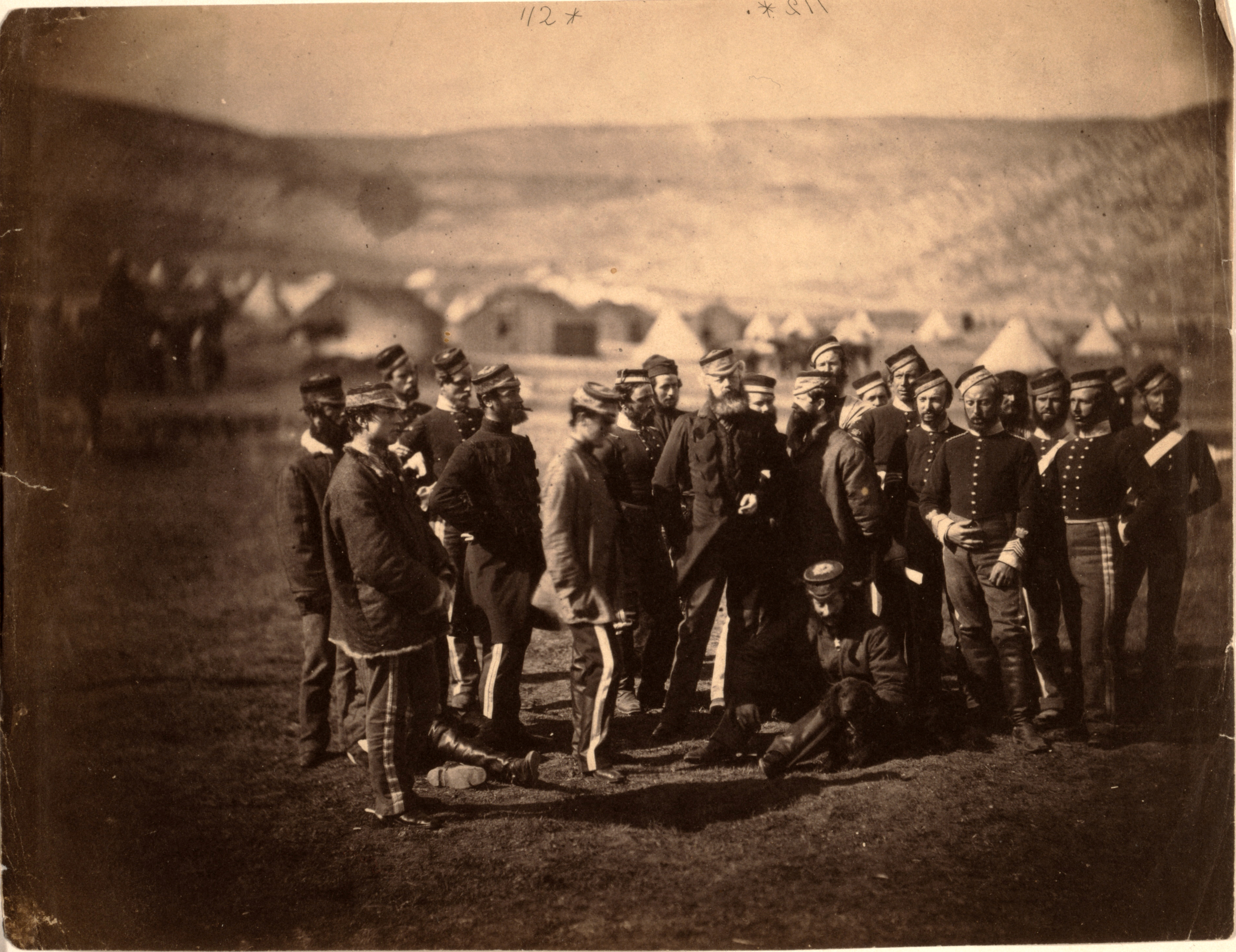 British survivors of the Charge of the Light Brigade. By Roger Fenton, October 1854